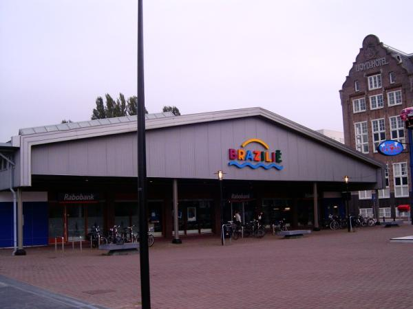 Shopping centre Brazilië on the Lloydplein, Amsterdam.